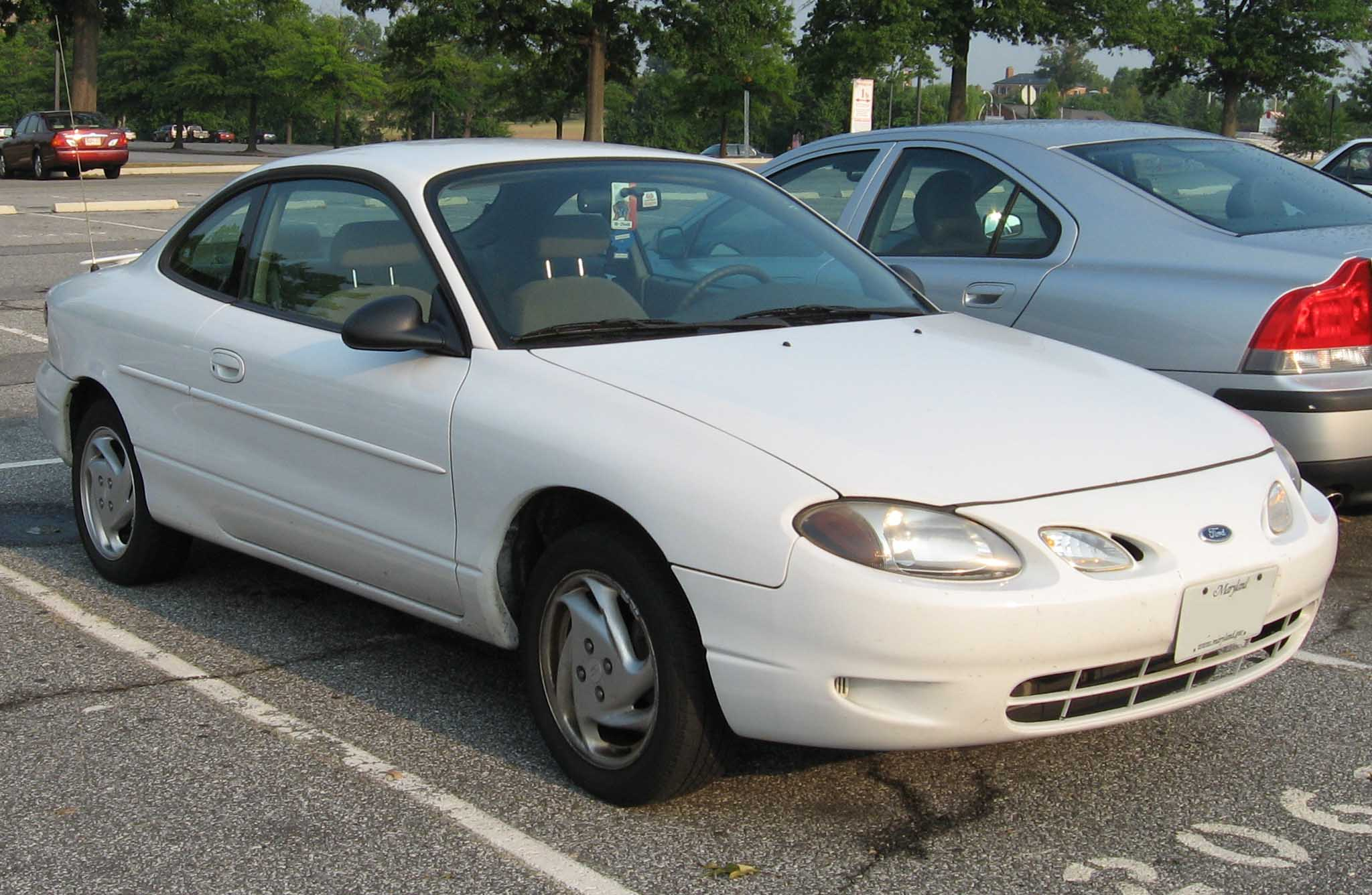 1998-2002 Ford ZX2 photographed in USA.